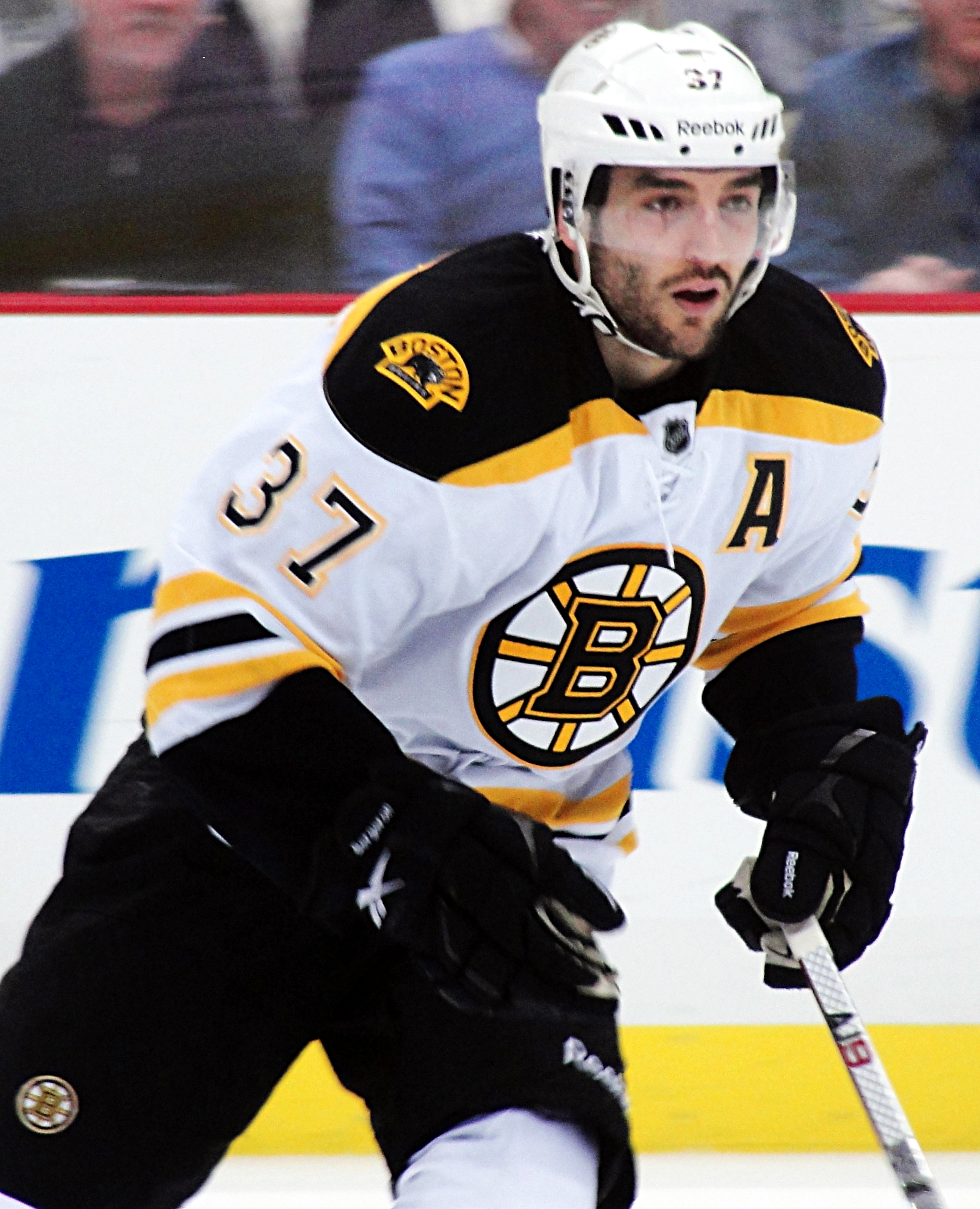 Boston Bruins forward Patrice Bergeron during a game against the Pittsburgh Penguins, March 11, 2012 at Consol Energy Center in Pittsburgh, PA.